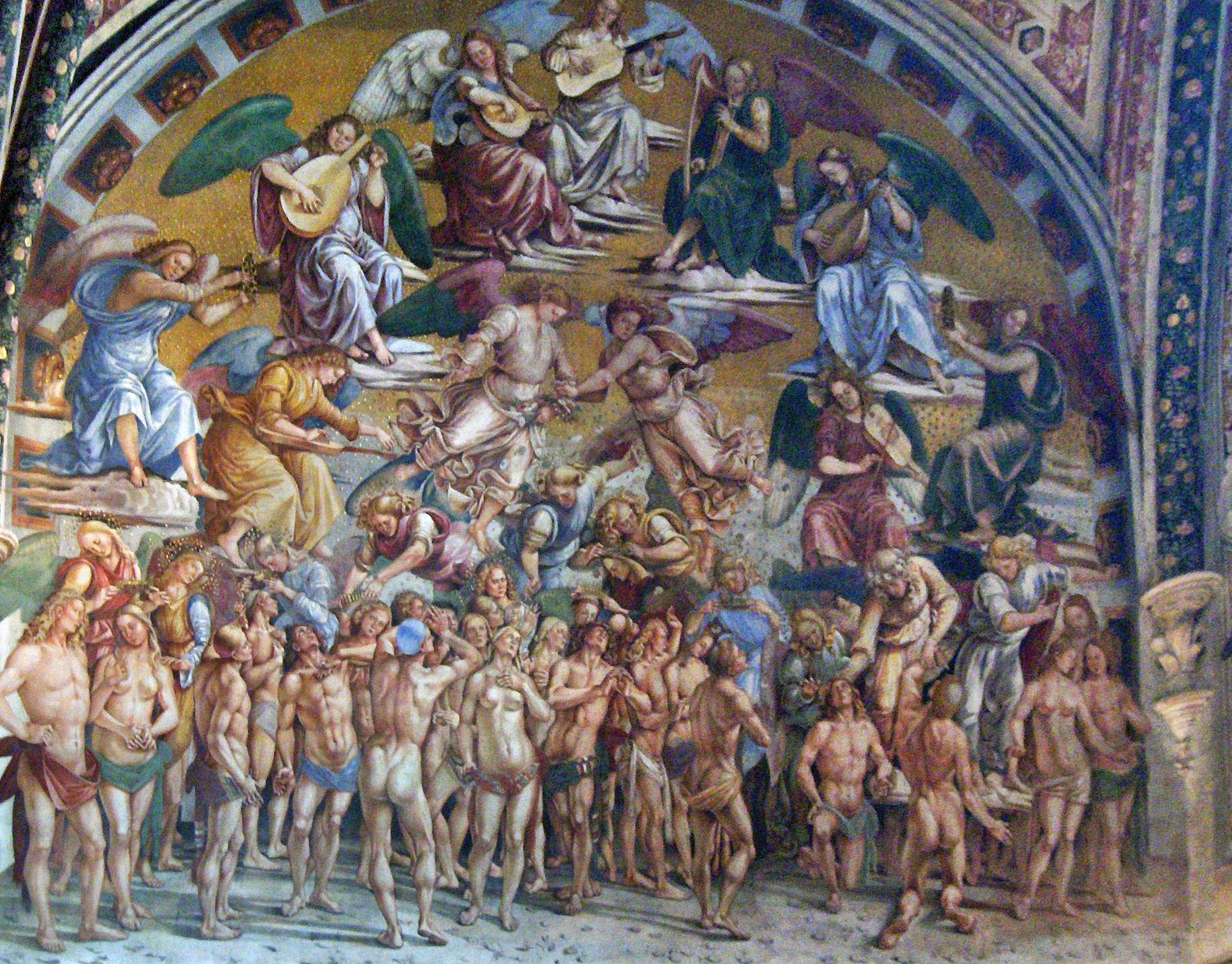 "The Elect in Paradise" by Luca Signorelli and his school (1499-1504); San Brizio Chapel, Cathedral of Orvieto, Italy